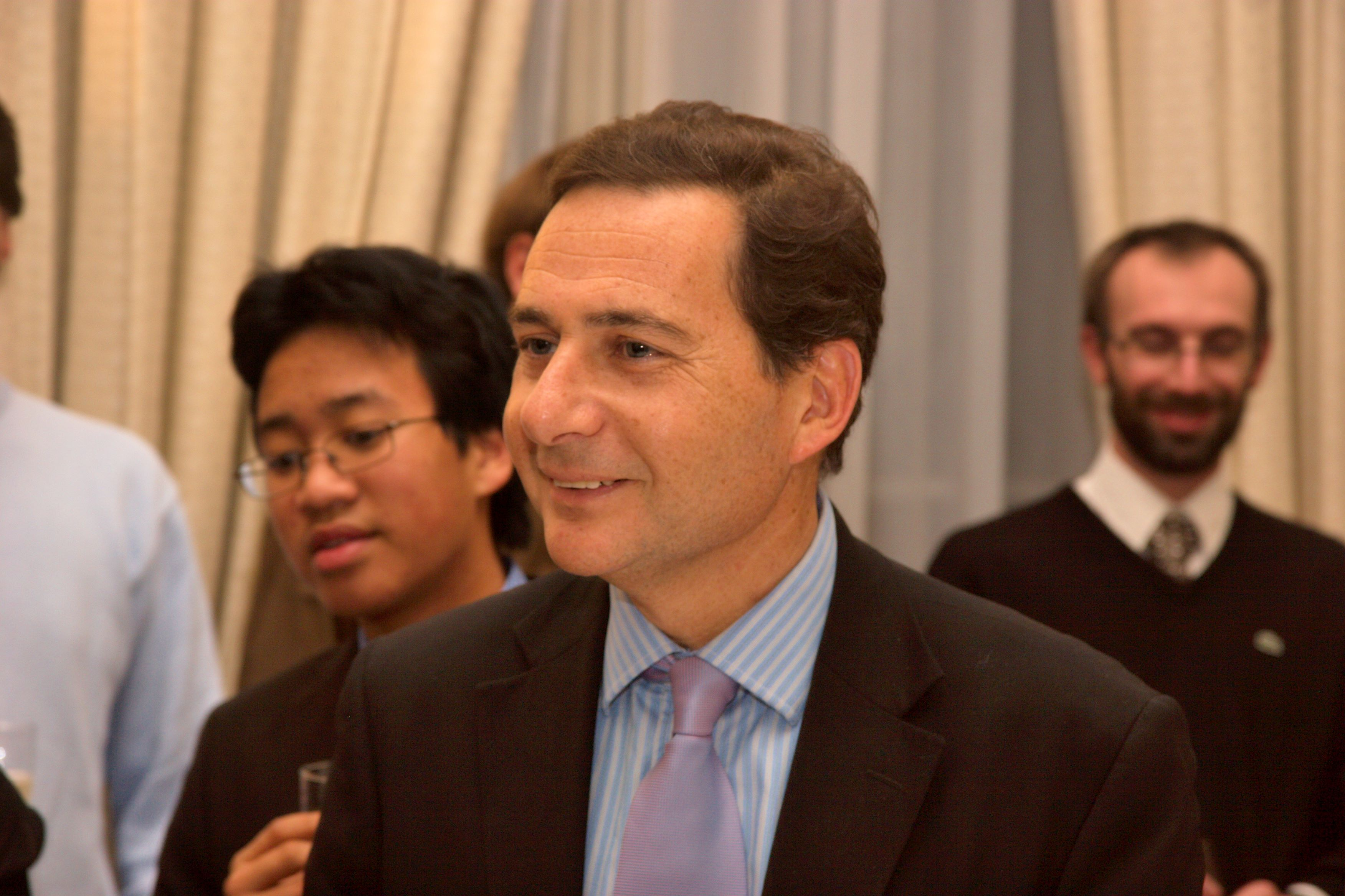 Eric Besson (France), secretary of state in charge of prospective, evaluation of public policies and the development of the e-economy, just after making Florence Devouard knight of the National order of merit